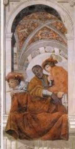 Emanuele_Ne_Vunda_Sala_dei_Corazzieri_Palazzo del Quirinale.